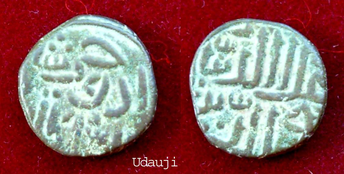 Coin of Ala-ud-Din Udauji, Sultan of Madurai Sultanate, 1339 AD. (image from personal collection)